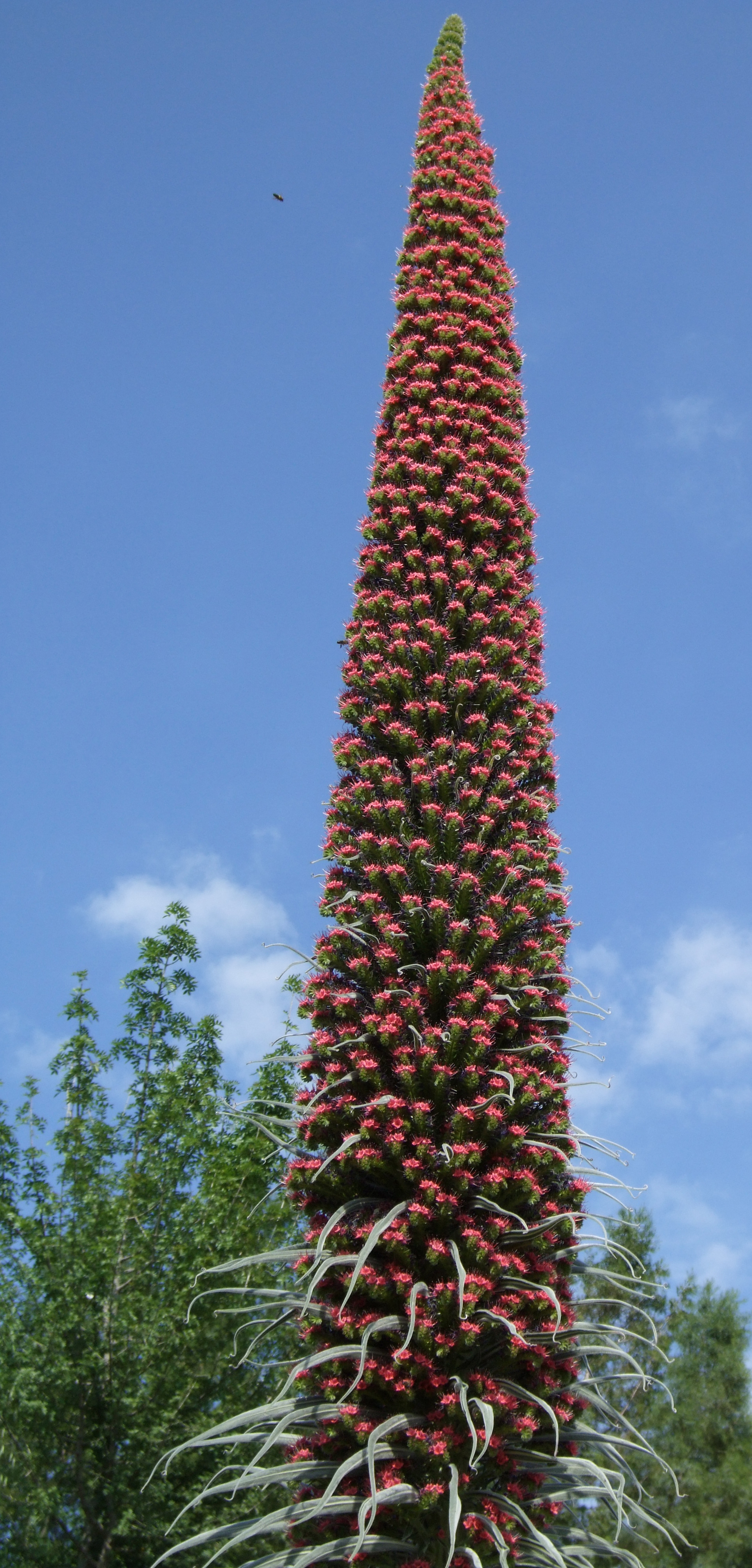 An Echium wildpretii in botanic garden of Nice, France.